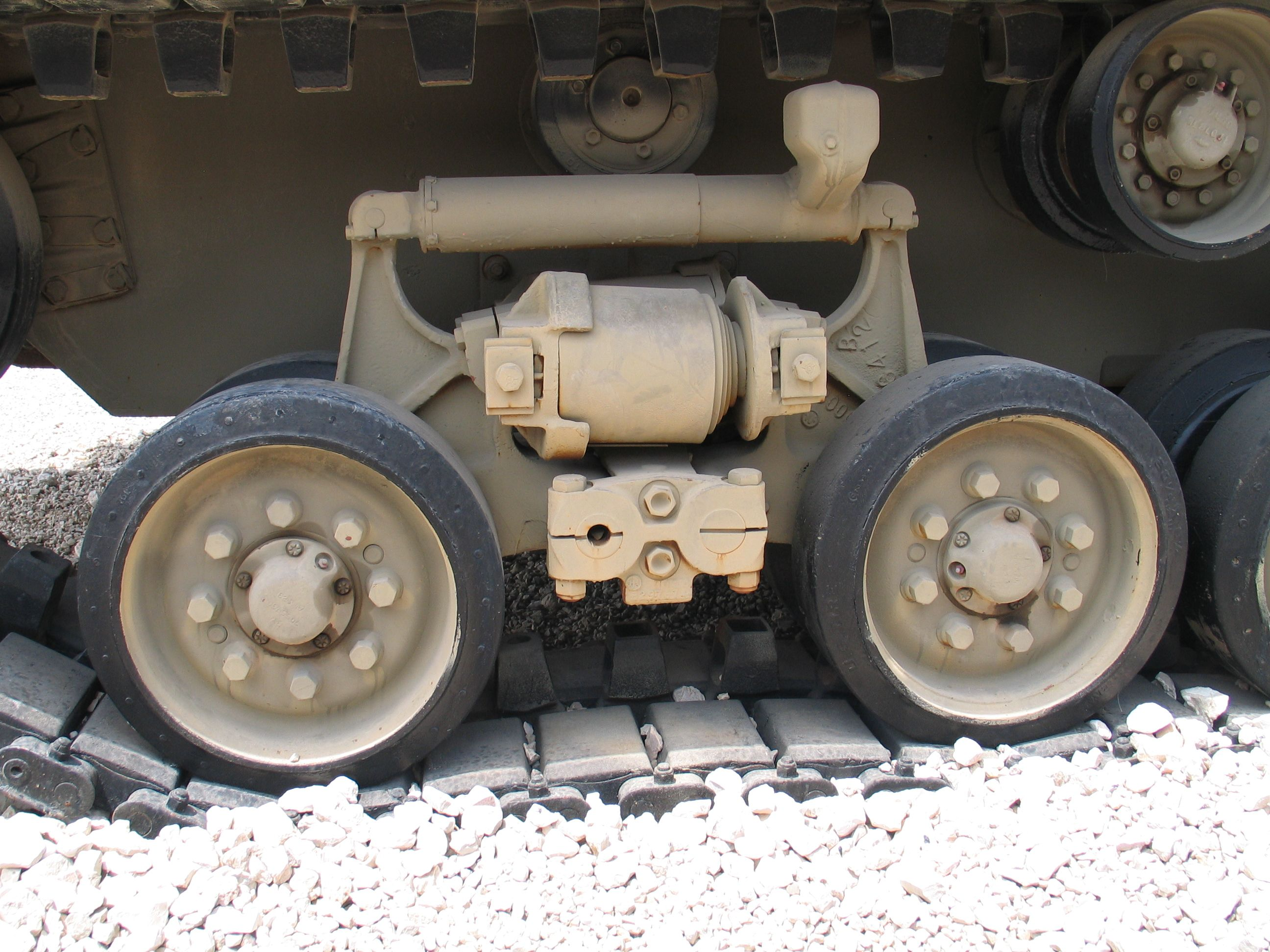 Sherman M-51 in Yad la-Shiryon Museum, Israel.